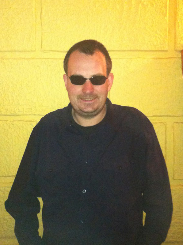 Christian Keltermann, German comedian